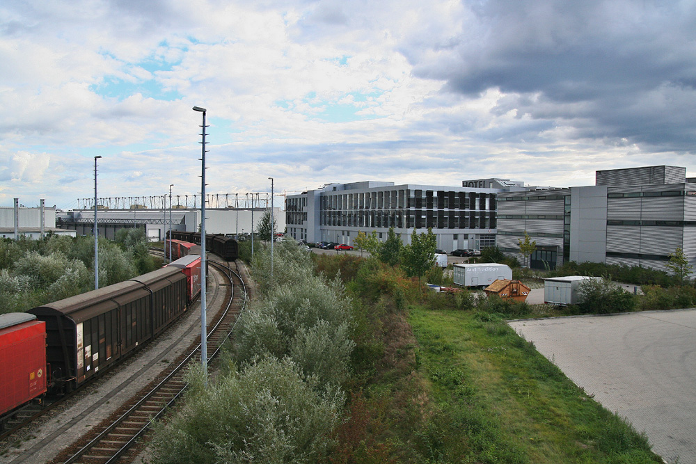 A view on Ingolstadt's cargo transport center/freight village